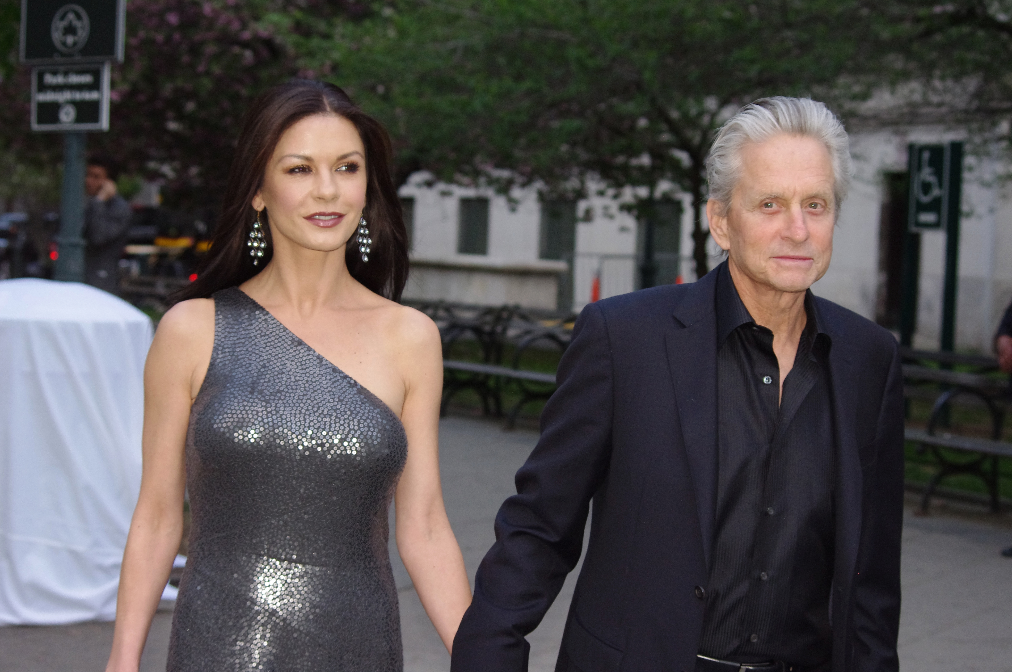 Catherine Zeta-Jones and Michael Douglas at the Vanity Fair party for the 2012 Tribeca Film Festival.